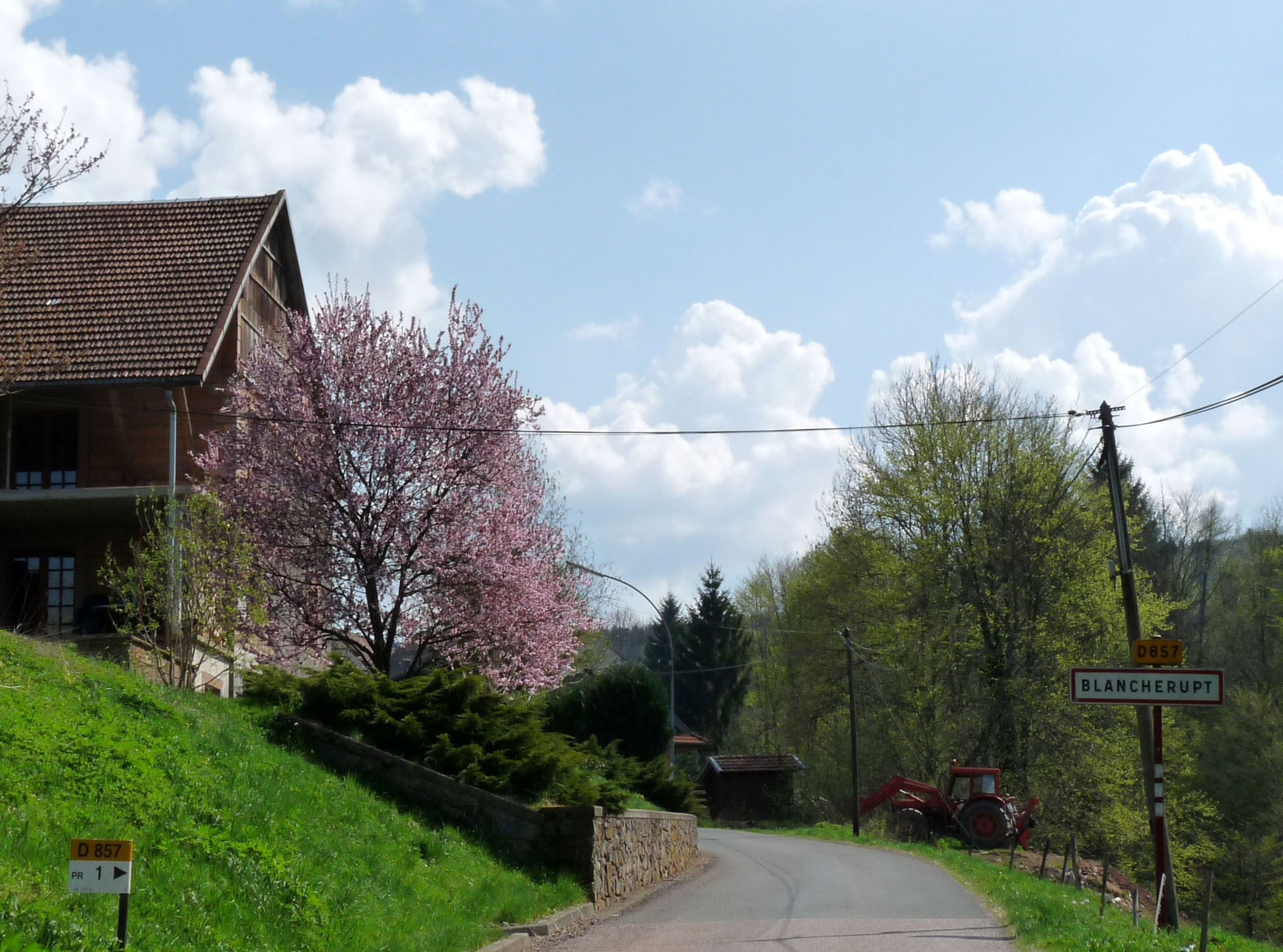 Blancherupt (Bas-Rhin)